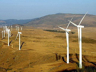 Eolic park in Cruz de Hierro pass.